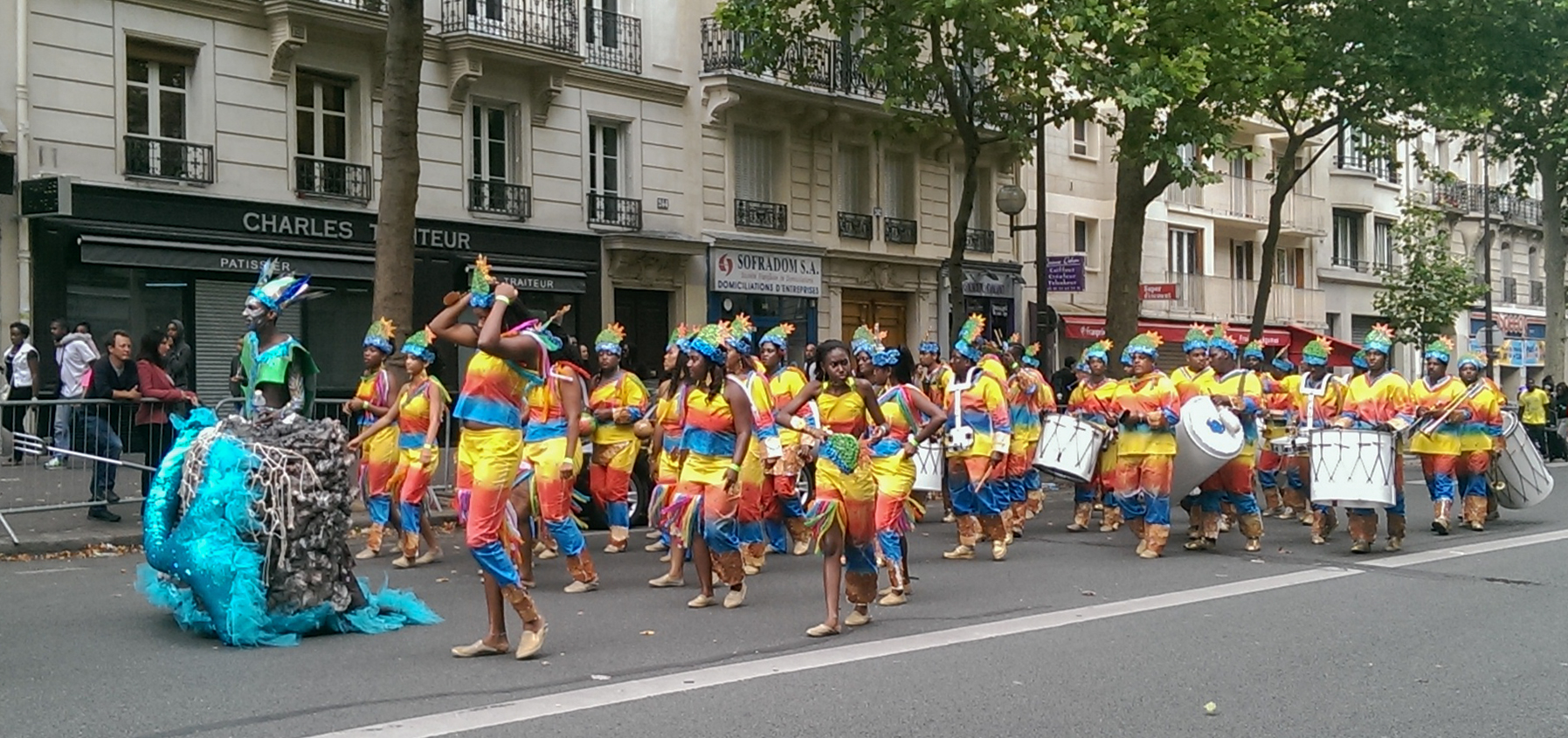 Tropical Carnival of Paris 2014 - Ou Za Konèt band (Martinique)